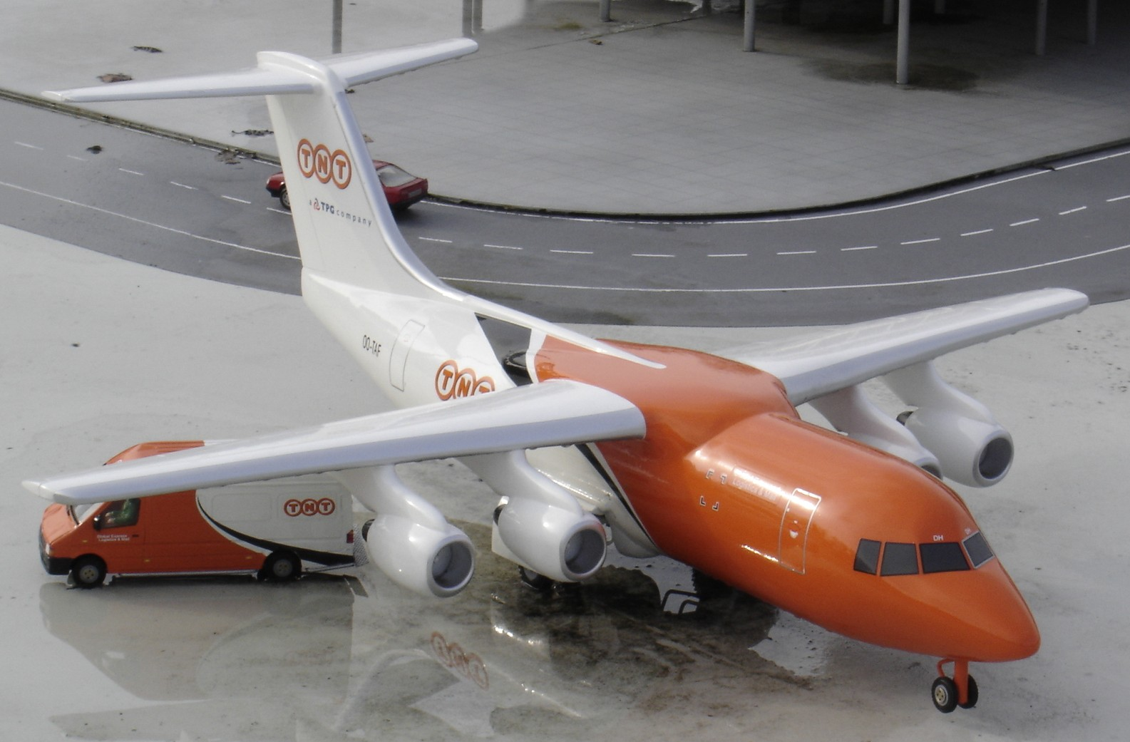 model of TNT-Airways plane in Madurodam